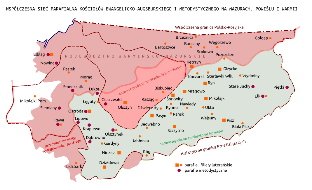 Lutheran and methodist churches structure in modern Mazury and Warmia